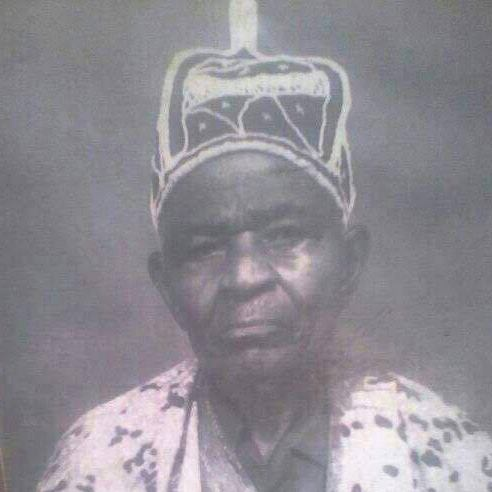 Sa Majesté Ytembe Michel, Chef Supérieur du Village Batcheu. 70 ans de règne allant de 1913 à 1983